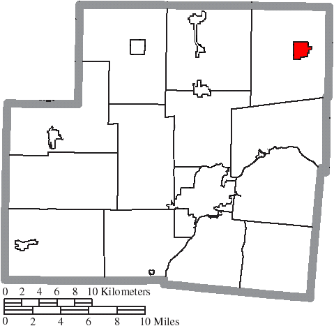 Map of the municipal and township boundaries of Shelby County, Ohio, United States, as of the 2000 census, with the location of the village of Jackson Center highlighted. Township borders are shown only in unincorporated areas in order to differentiate incorporated and unincorporated areas more clearly.